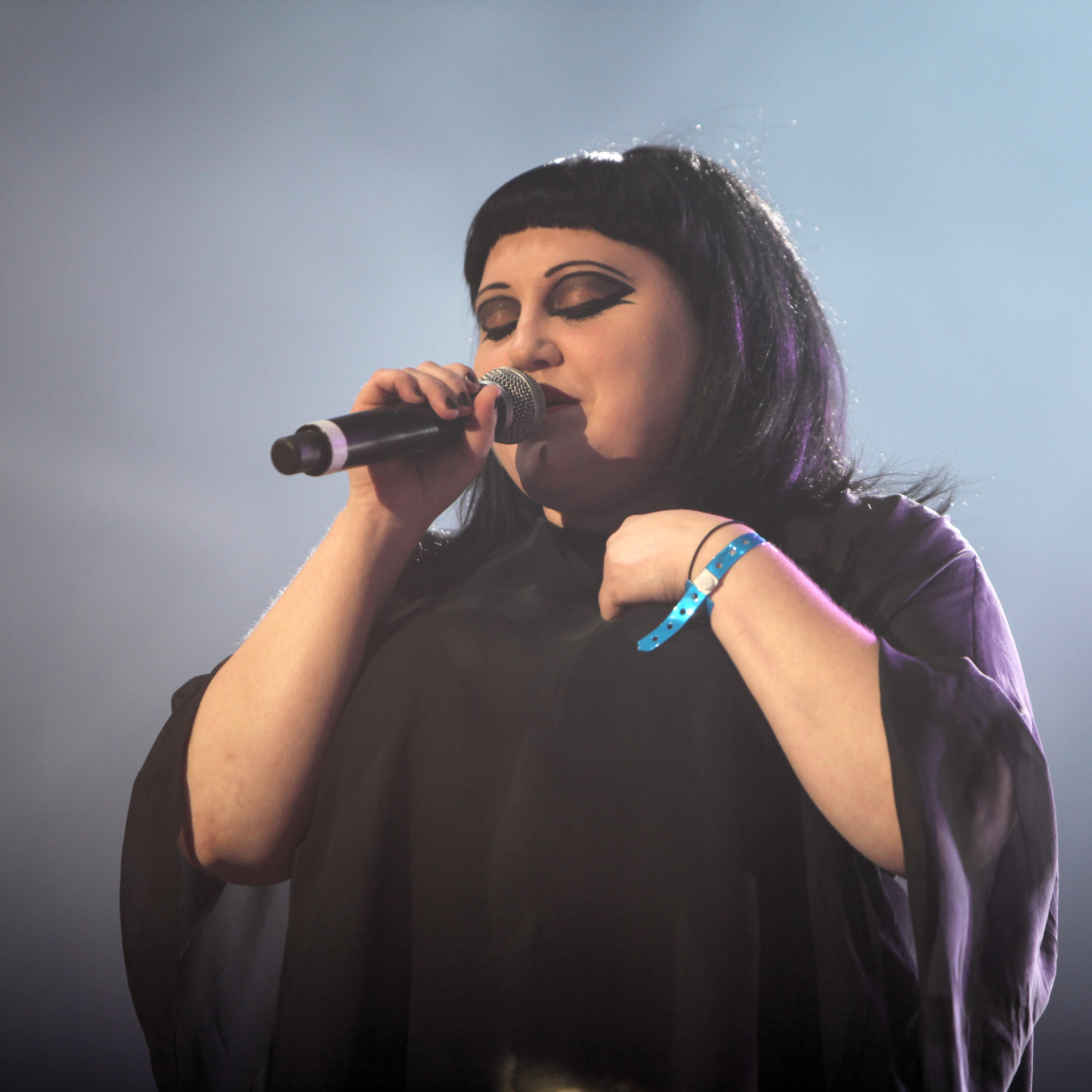 Beth Ditto at the Eurockéennes de Belfort 2011 The making of this document was supported by Wikimedia CH. (Submit your project!) For all the files concerned, please see the category Supported by Wikimedia CH.